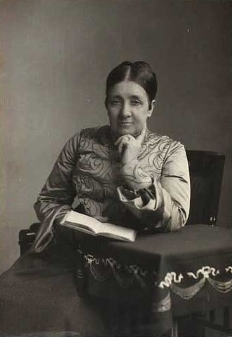 Astrid Stampe Feddersen, née Baroness Stampe (1852-1930), Danish noblewoman and women's rights activist